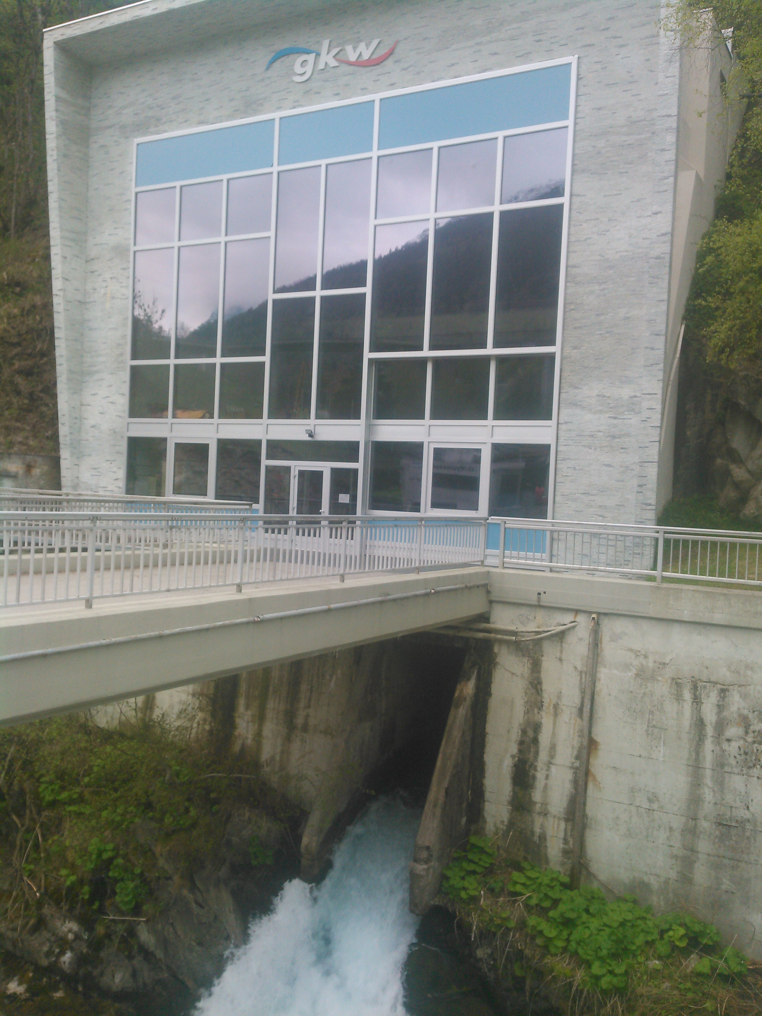 Small hydro plant in Ernen, Switzerland